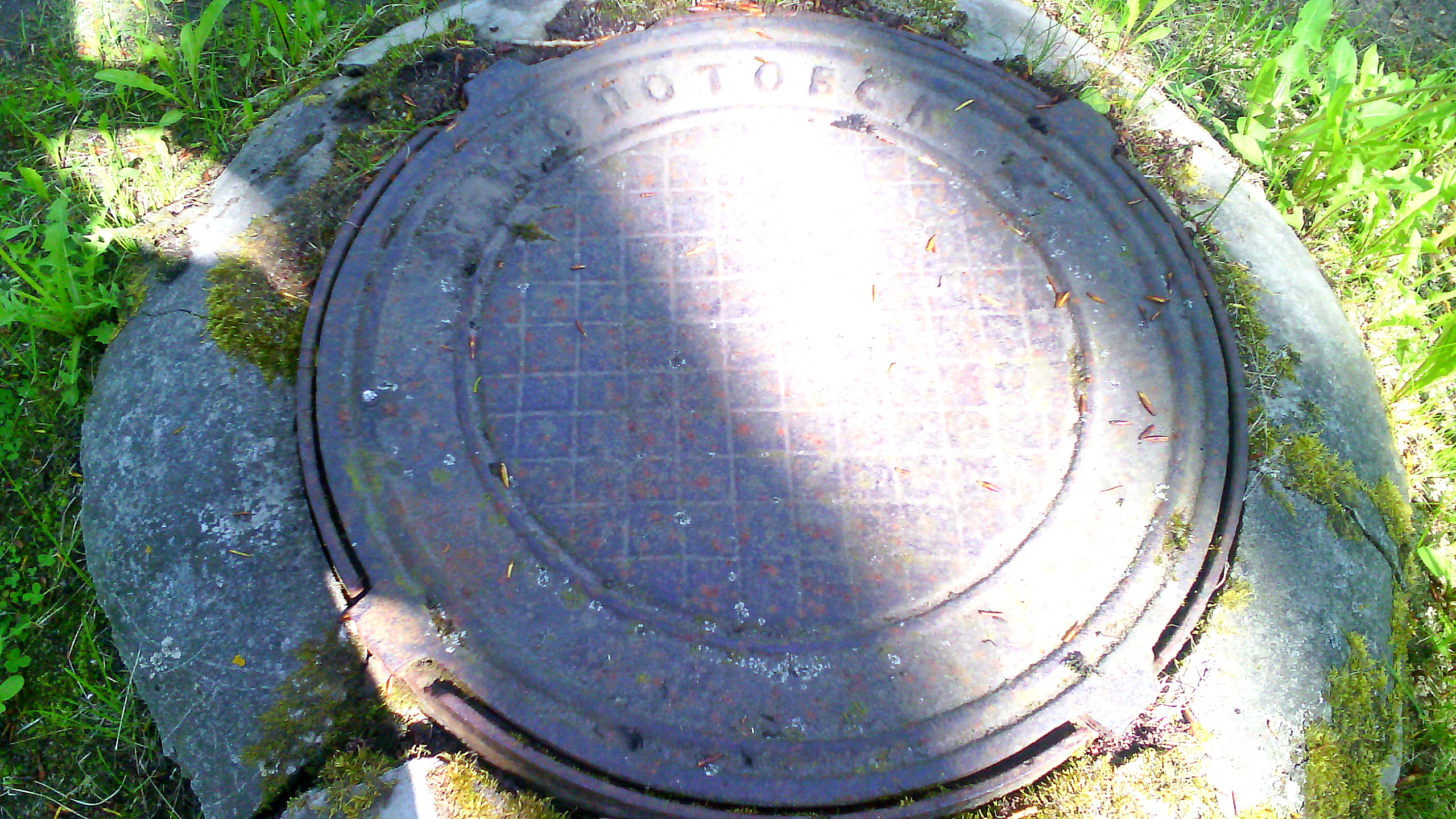 47, Lomonosova Street, Severodvinsk